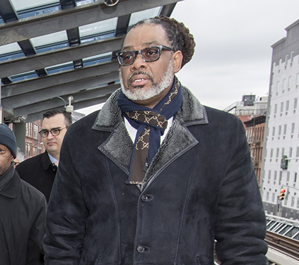 (Fr l. to r - front) State Sen. Kevin Parker, artist Derrick Adams and NYC Council Member Robert Cornegy attend reopening at LIRR Nostrand Avenue Station on Jan. 31, 2020. Metropolitan Transportation Authority/Patrick Cashin